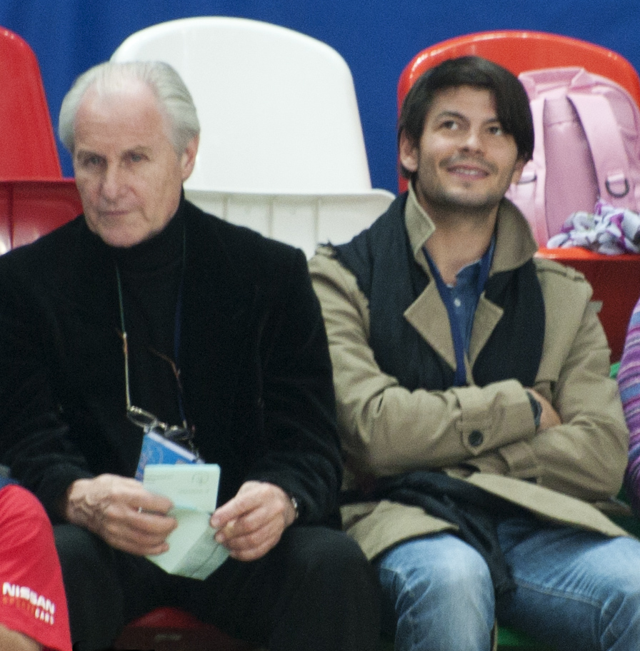 2011 World Figure Skating Championships, free skating.